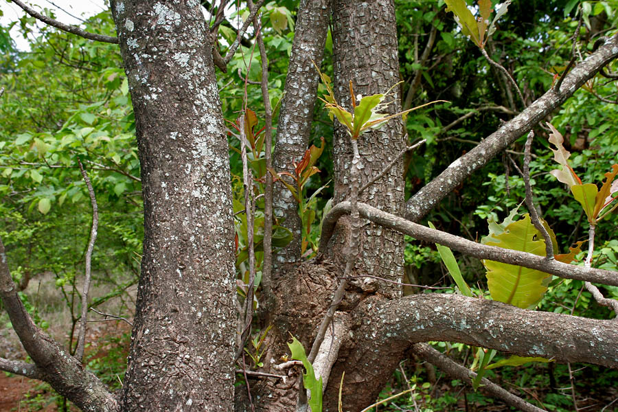 Terminalia bellirica - Baheda, Belliric Myrobalan, Bastard myrobalan, Bedda nut tree • Hindi: बहेड़ा bahera, बहुवीर्य bahuvirya, भूतवास bhutvaas, कल्क kalk, कर्षफल karshphal • Manipuri: bahera • Marathi: बेहडा behada, बिभीतक bibhītaka, कलिद्रुम kalidruma, वेहळा vehala • Tamil: தான்றி tanri • Malayalam: താന്നി thaanni • Telugu: భూతావాసము bhutavasamu, కర్షఫలము karshaphalamu, తాడి tadi, తాండ్రచెట్టు tandrachettu, విభీతకము vibhitakamu • Kannada: ತಾರೆಕಾಯಿ taarekaayi • Bengali: বহেড়া baheda • Oriya: bahada • Konkani: goting • Urdu: Bahera • Assamese: bauri • Gujarati: બહેડા baheda • Khasi: Dieng rinyn • Sanskrit: अक्षः akshah, बहुवीर्य bahuvirya, बिभीतकः bibhitakah, कर्षः karshah, विभीतकः vibhitakah • Nepali: बर्रो barro - at Ananthagiri Hills, in Rangareddy district of Andhra Pradesh, India.